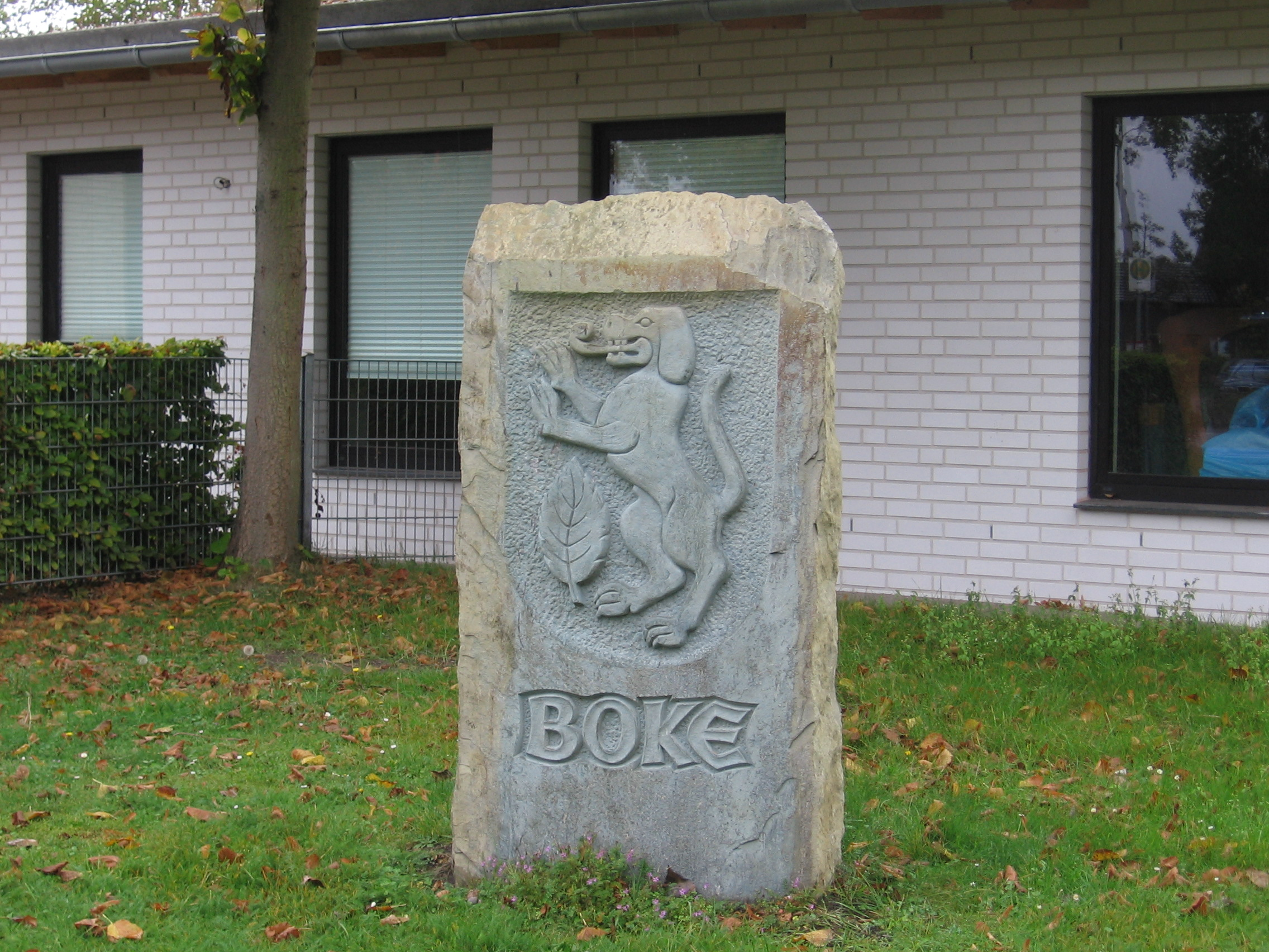 This stone in the German village Boke shows the coat of arms of the village.